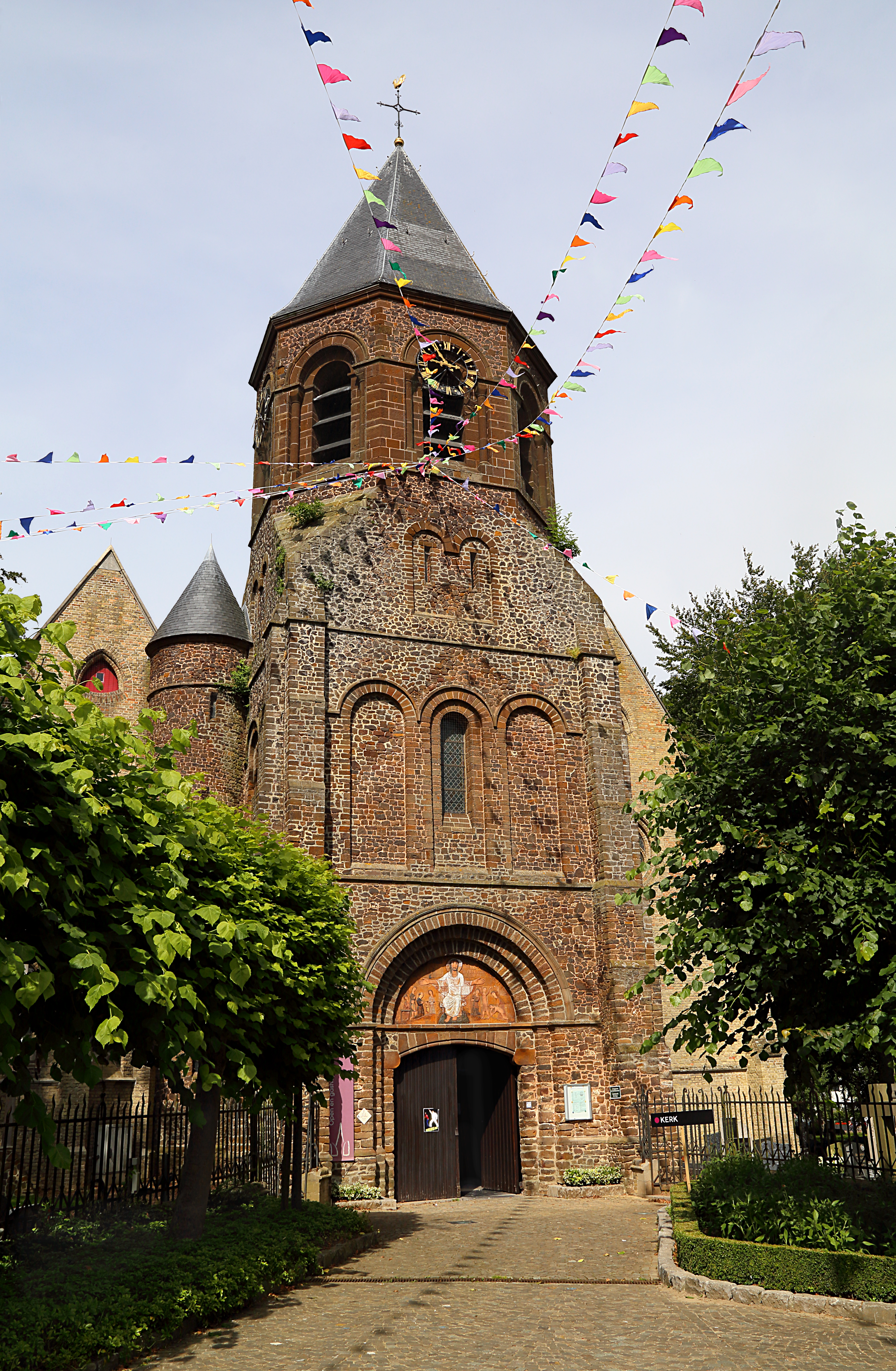 Saint-Eligius church in Westouter, Belgium.